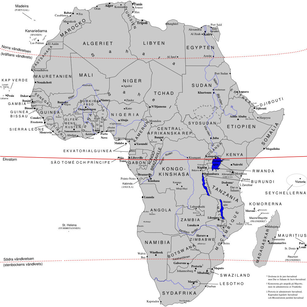 Swedish political map of Africa, also available as svg-version: Image:Afrika_politisk.svg.